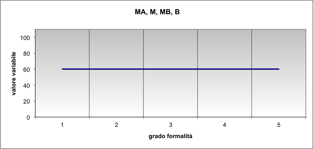 example of linguistic indicator